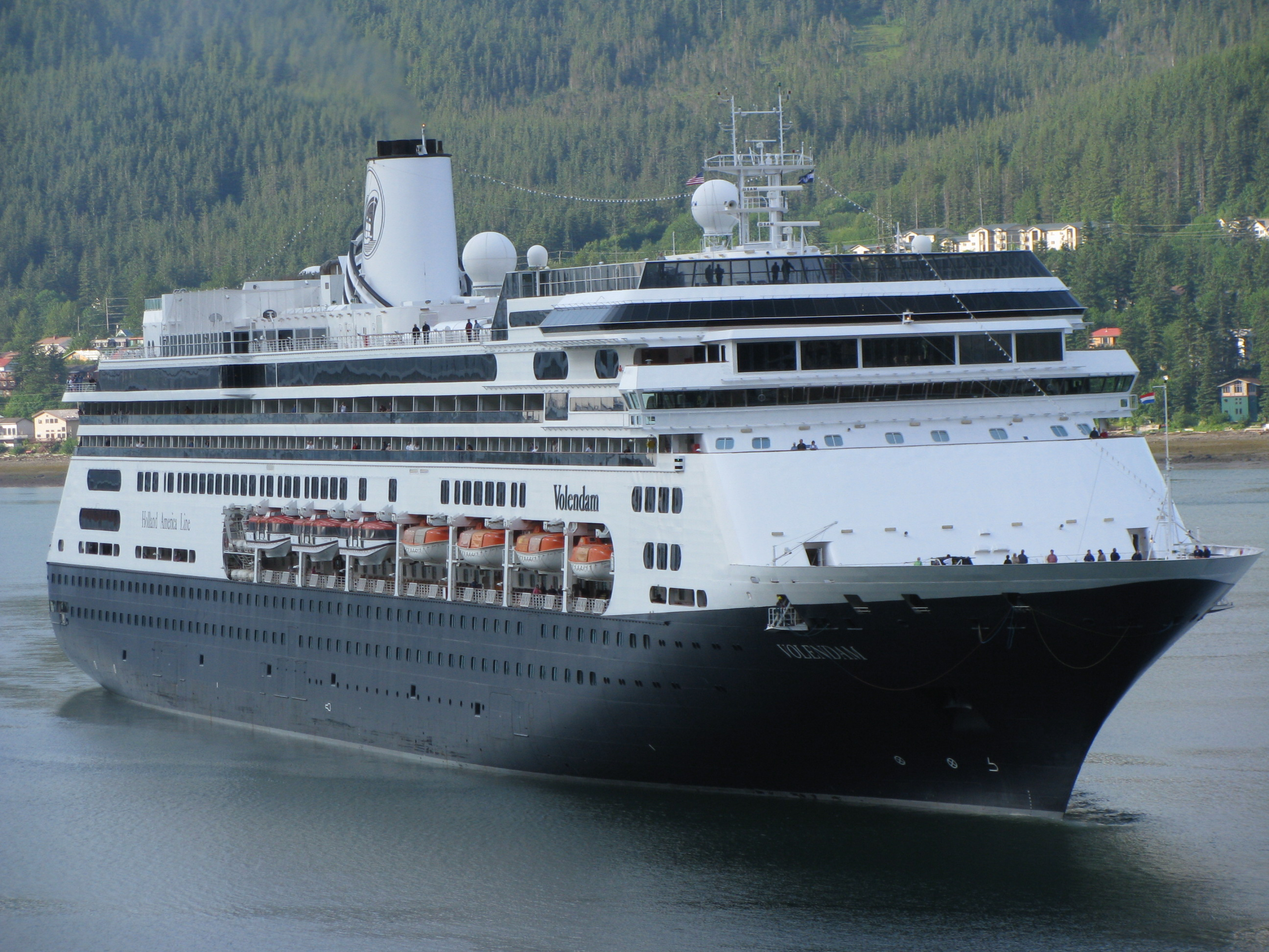 MS Volendam in Juneau, AK, USA